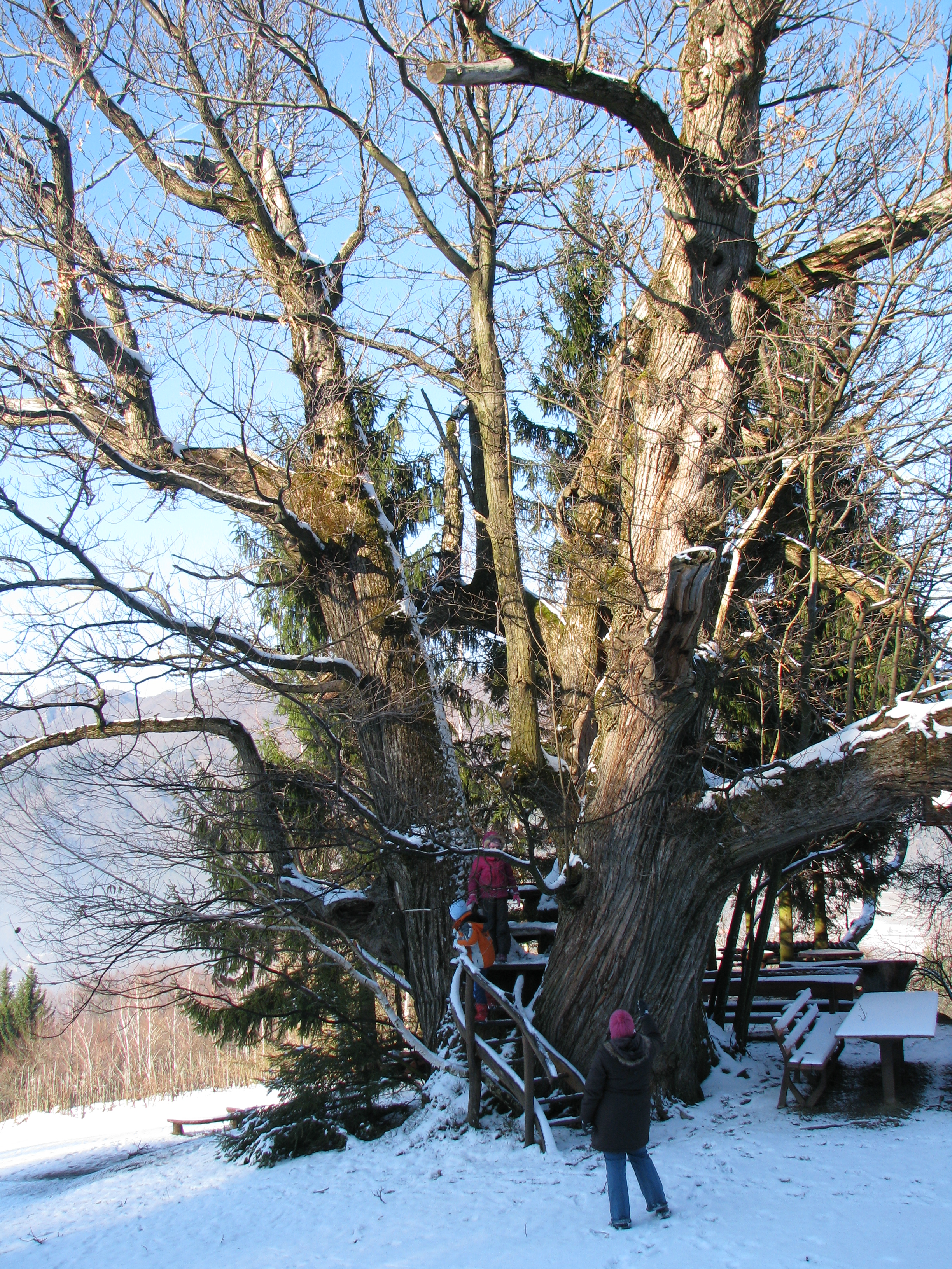 Gasper's chestnut tree, Slovenia's thickest chesnut tree (Castanea sativa), located in Močilno, Slovenia, about 400 years old.